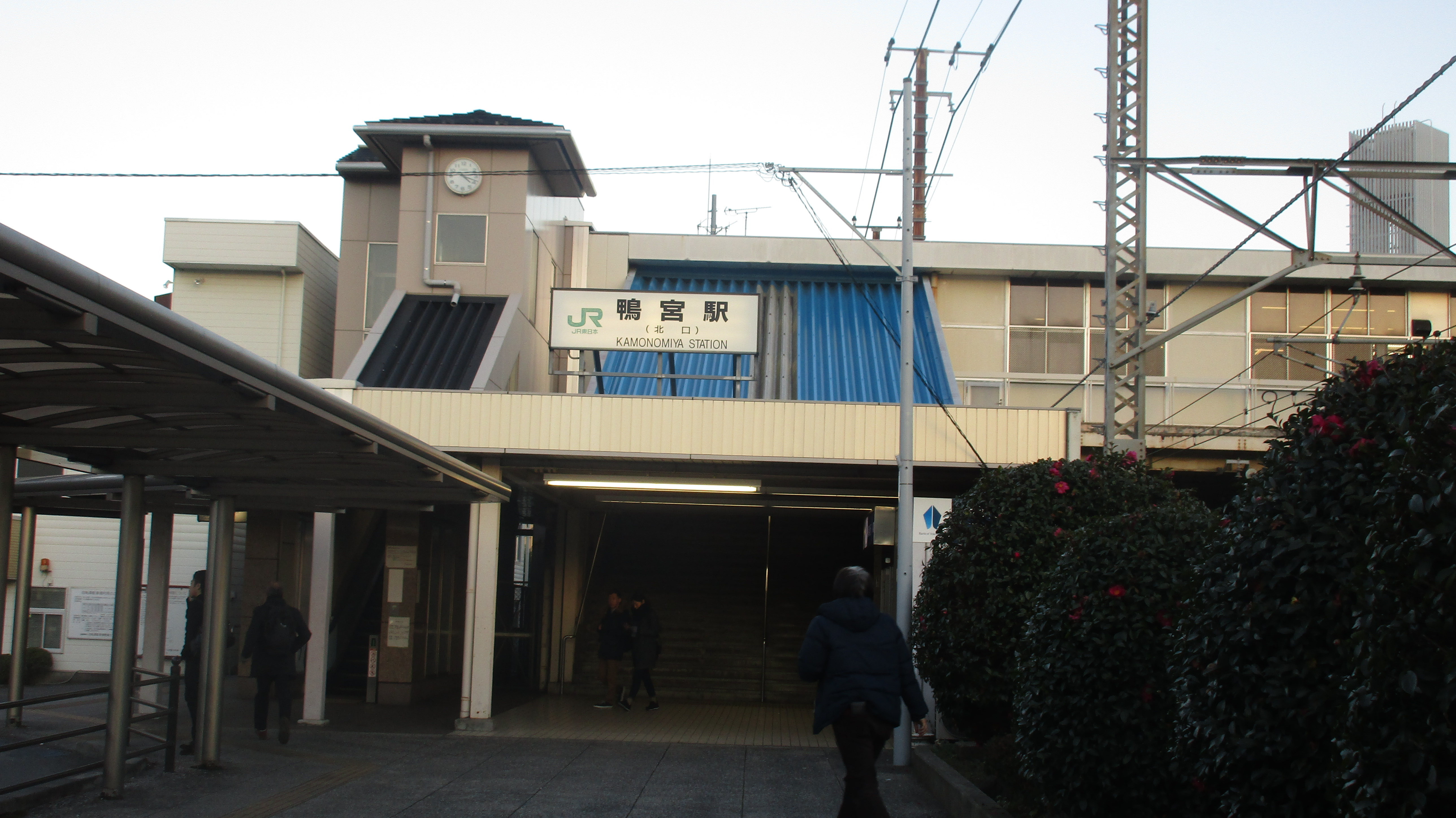 JR東海道本線 鴨宮駅舎